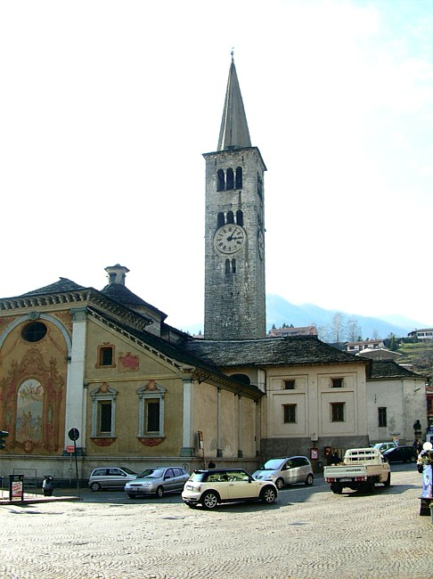 Omegna in Piemonte Italy picture taken by user:Idéfix march 25, 2006